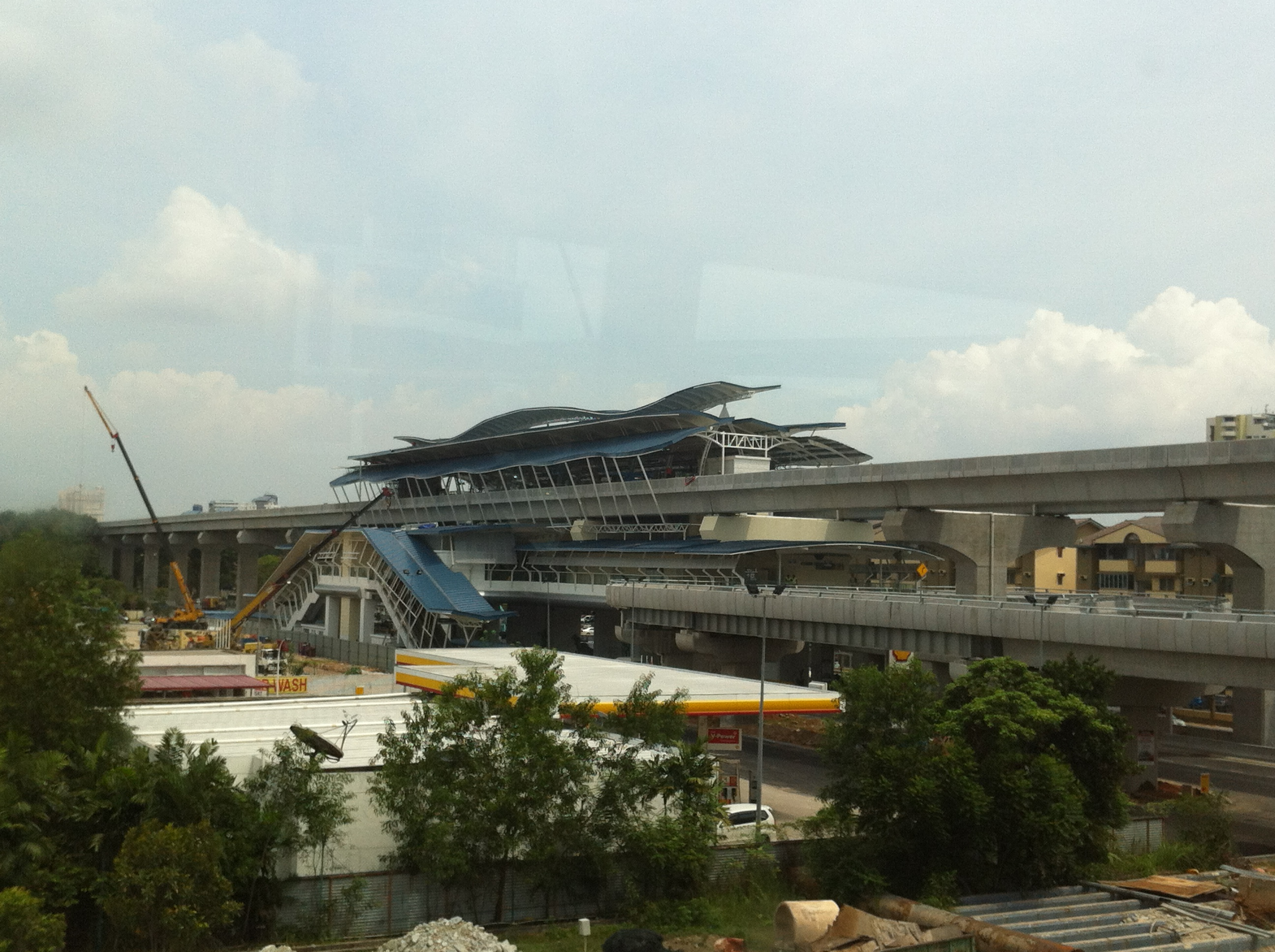 BRT USJ7 halt and LRT USJ7 stn